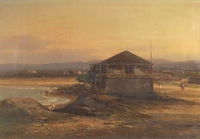 Monterey Custom House, oil on canvas